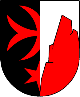 Znak MČ Praha-Slivenec / Coat of arms Prague-Slivenec, Czech Republic